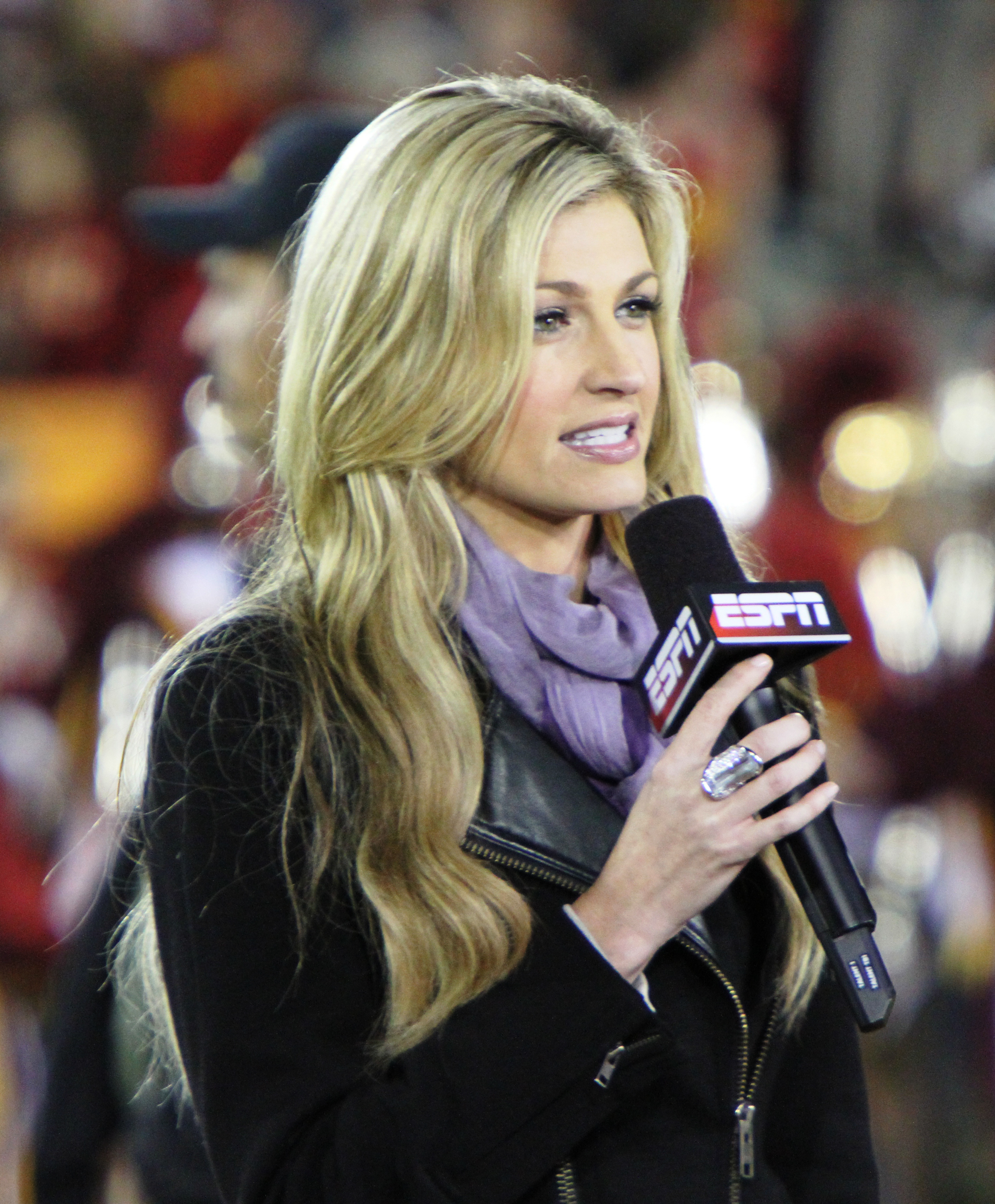 The Oregon Ducks beat the USC Trojans 53-32 at the Los Angeles Memorial Coliseum Saturday October 30, 2010. (Shotgun Spratling/Neon Tommy)